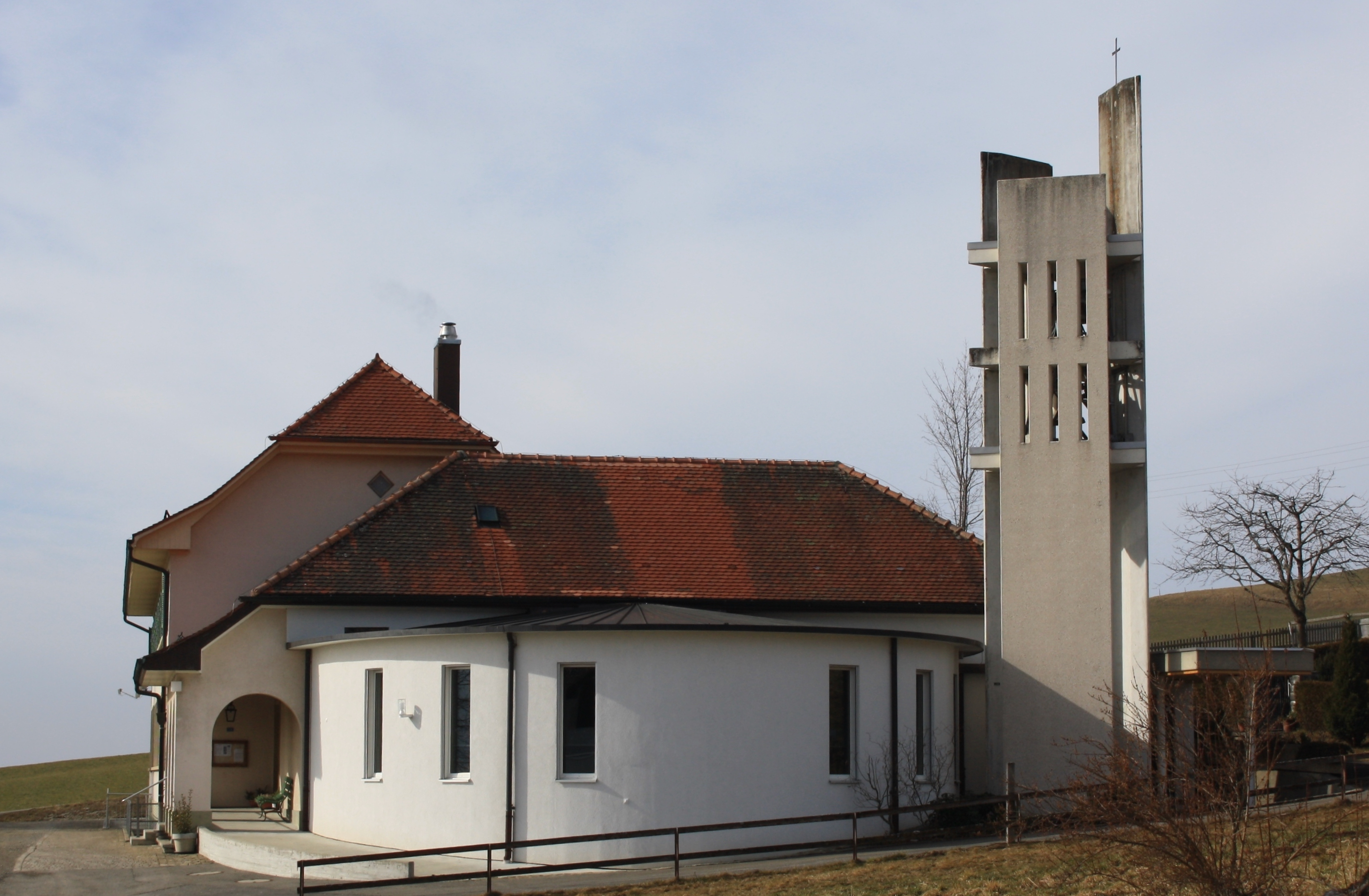 Reformed church at Weissenstein/Rechthalten